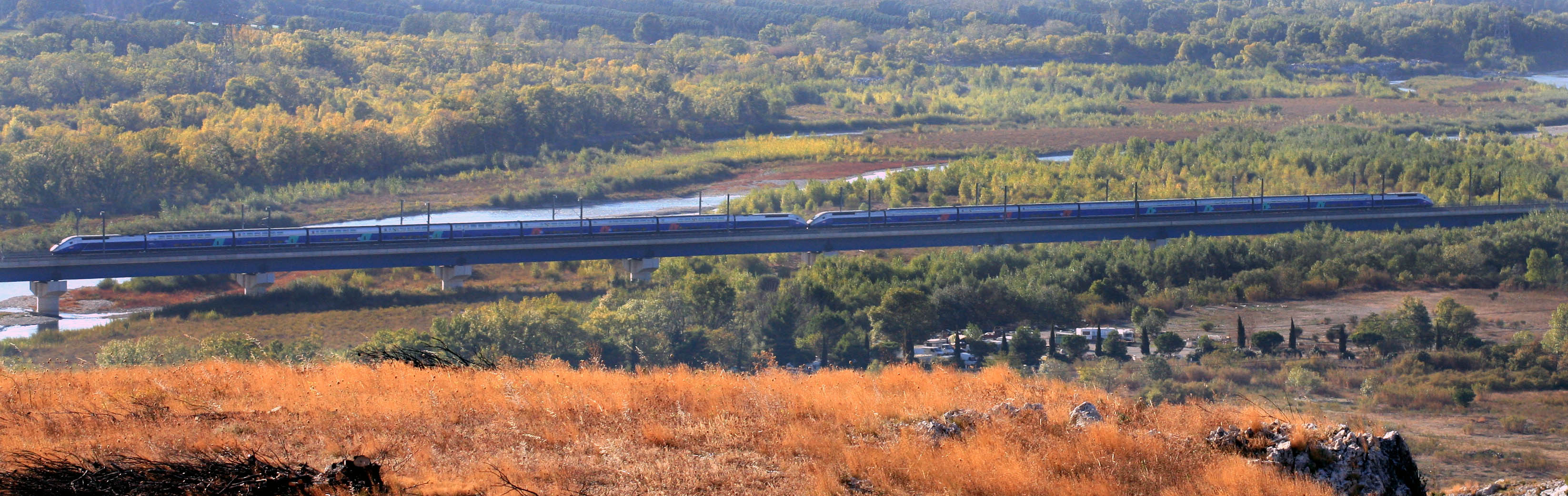 LGV, train / railroad near the Durance next to Cavaillon (84), France